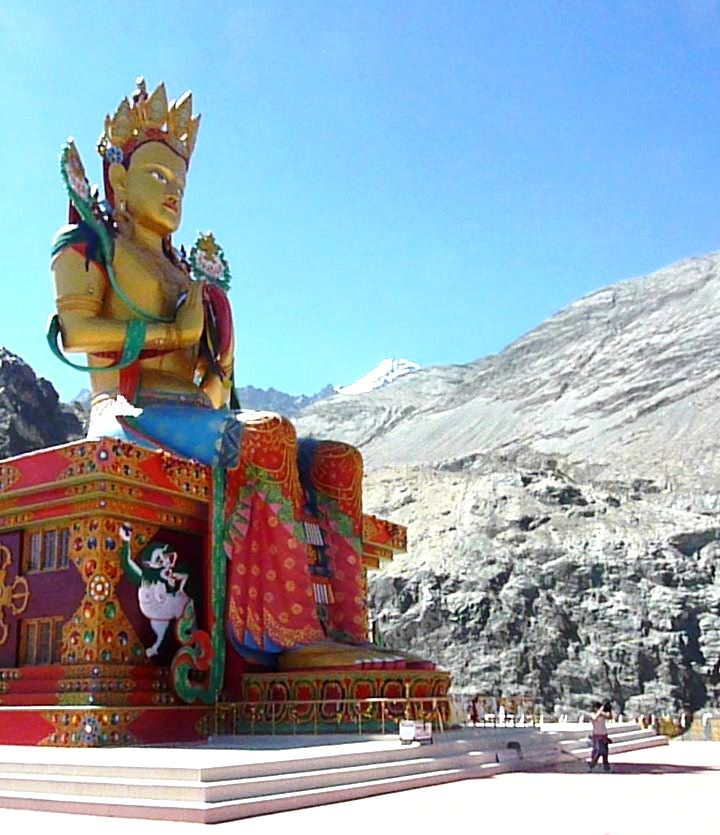 I took this photo of the 110 ft (35 metre) Maitreya Buddha facing down the Shyok River, Nubra Valley near Diskit Monastery towards Pakistan as a symbol of world peace